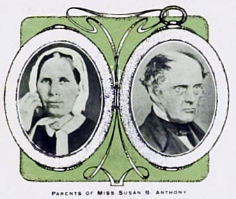 Daniel & Lucy Anthony, parents of Susan B. Anthony